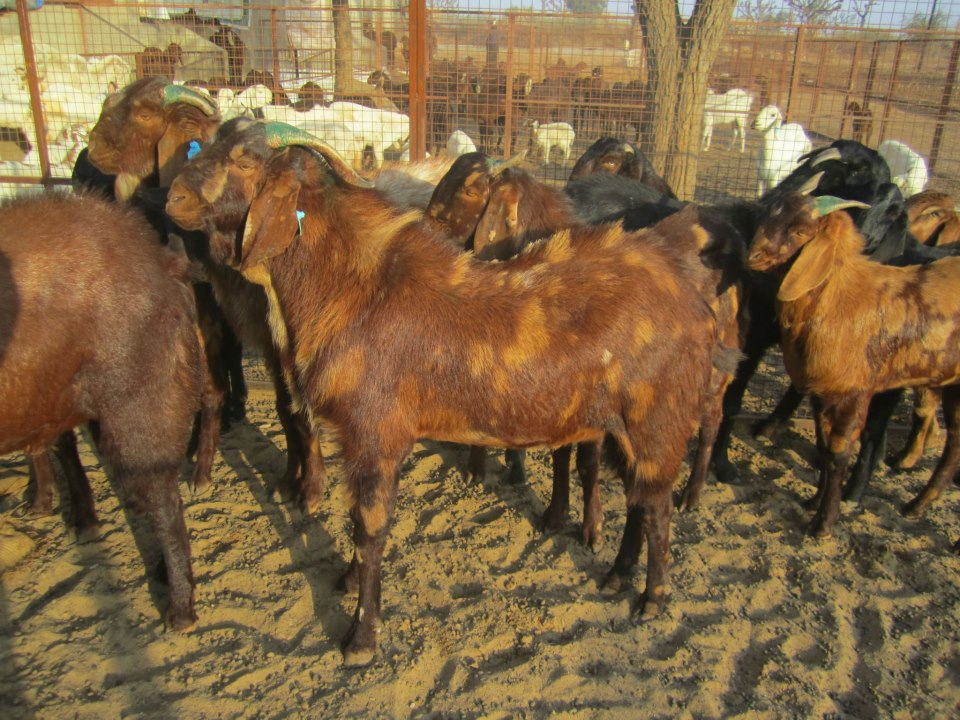 Spotted Sirohi Bucks